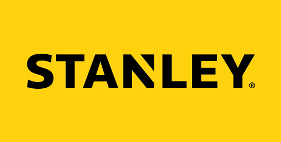 Logo for the Stanley Works.